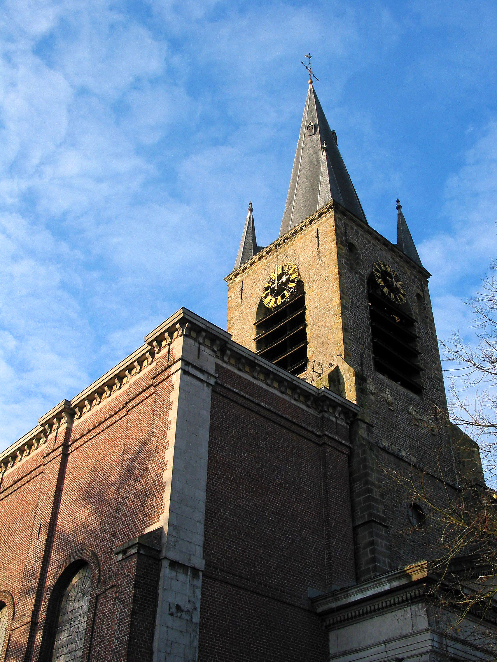 Péruwelz (Belgium), the St. Quentin church (XVI - XVIIIth century).